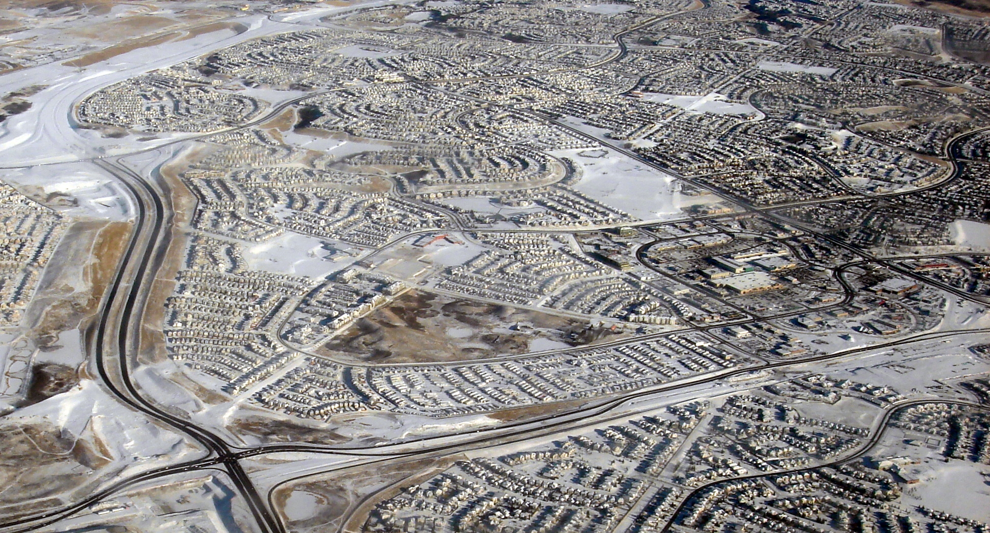 Sprawling neighbourhood of Arbour Lake, Calgary, Alberta, Canada, with intersection of Crowchild Trail and Stony Trail.